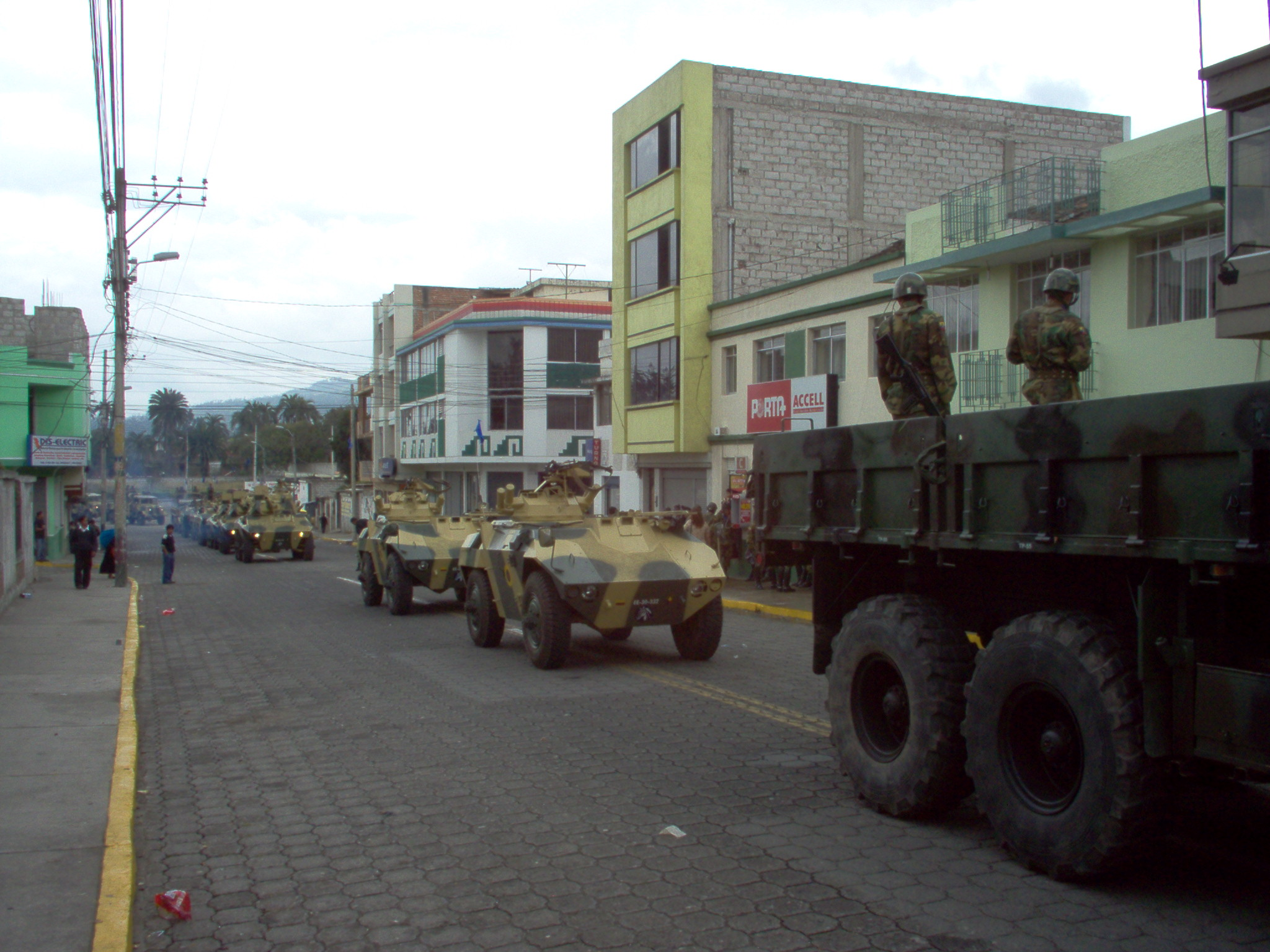 Armored vehicles at a military parade in Otavalo, Ecuador